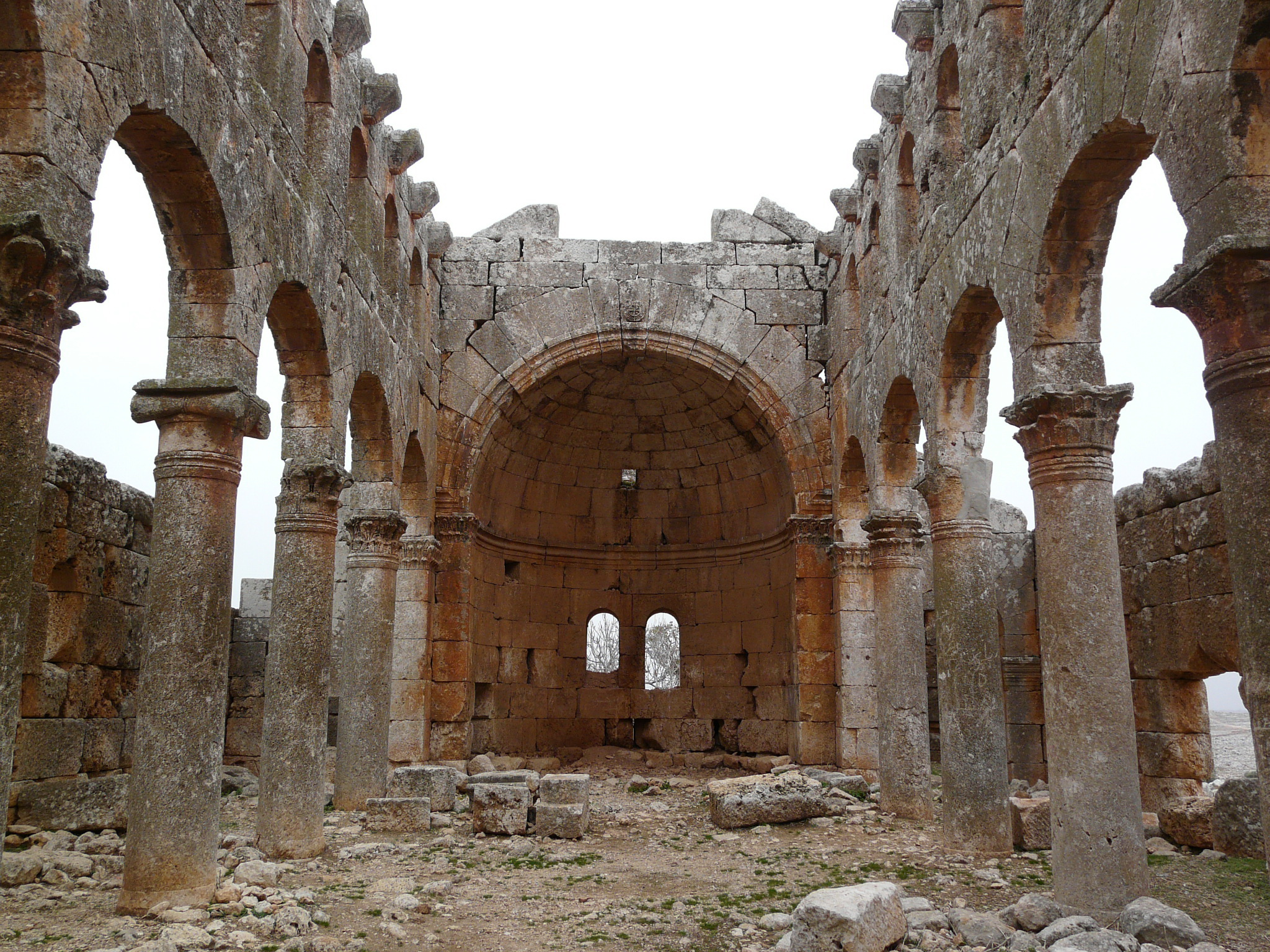 Mushabbak Basilica, Aleppo, internal view